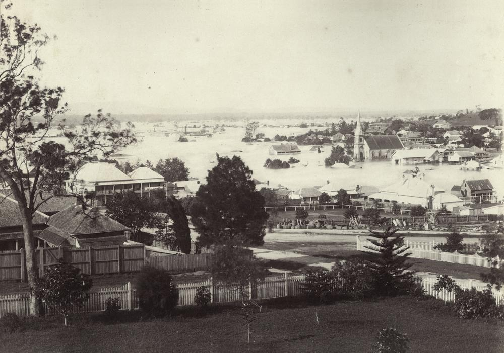 Panoramic view of the flooded town of Ipswich, 1893.